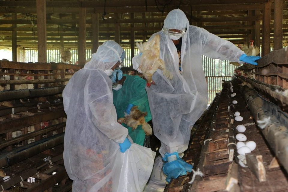 Culling of chickens in a chicken farm as part of efforts to contain a H5N6 avian flu outbreak among livestock in Central Luzon.